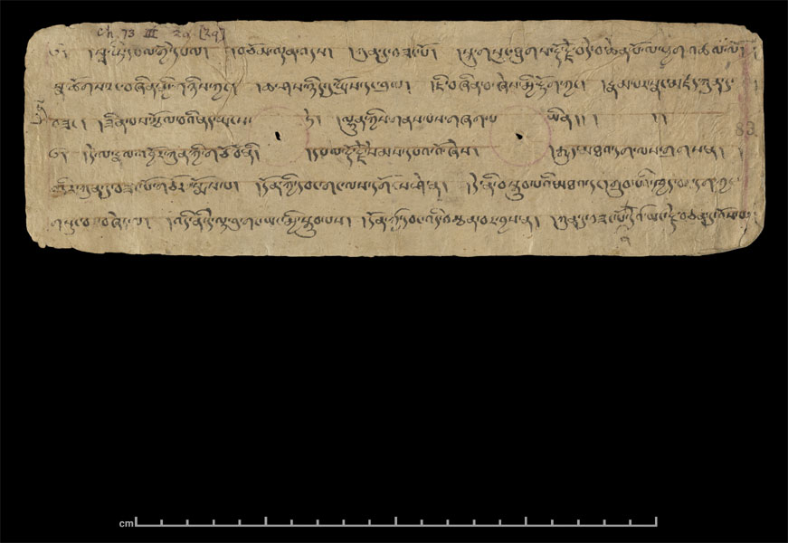 Text from dzogchentext The cuckoo of awareness